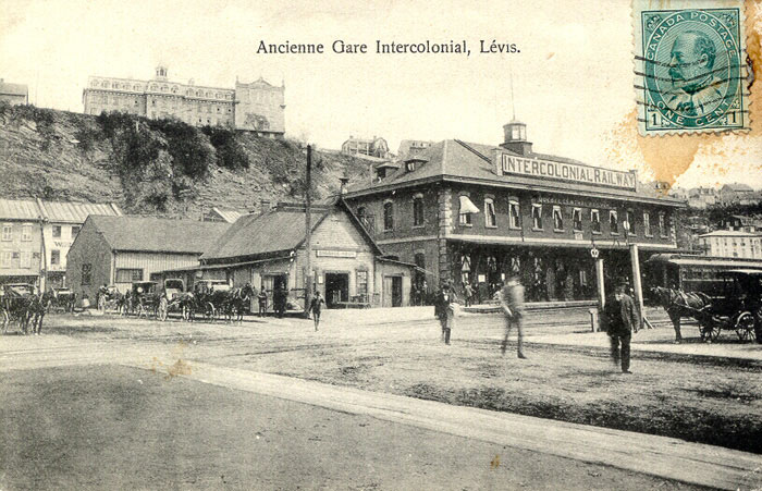 Old post card, mailed in 1902, showing the Intercolonial Railway Depot in Levis, QC. Circa 1902, A.R. Roy editor BAnQ, Centre d'archives de Québec Collection Magella Bureau P547,S1,SS1,SSS1,D227,P190